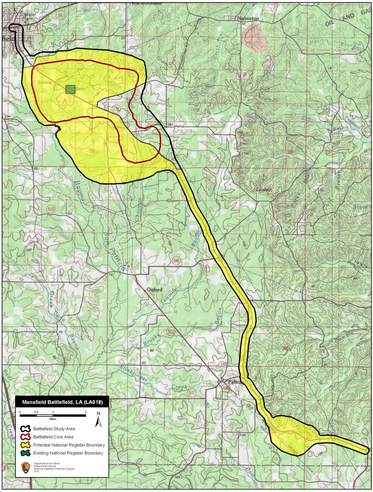 Map of battlefield core and study areas. The revised Study Area includes the Federal approach route from their supply base at Pleasant Hill and the Confederate approach route from their camps in Mansfield. Both forces were aware of the presence of the other and left that morning anticipating an engagement. The Core Area was expanded to include the Confederate line of battle just south of Mansfield and the Federal rear guard action on the retreat toward Pleasant Hill.